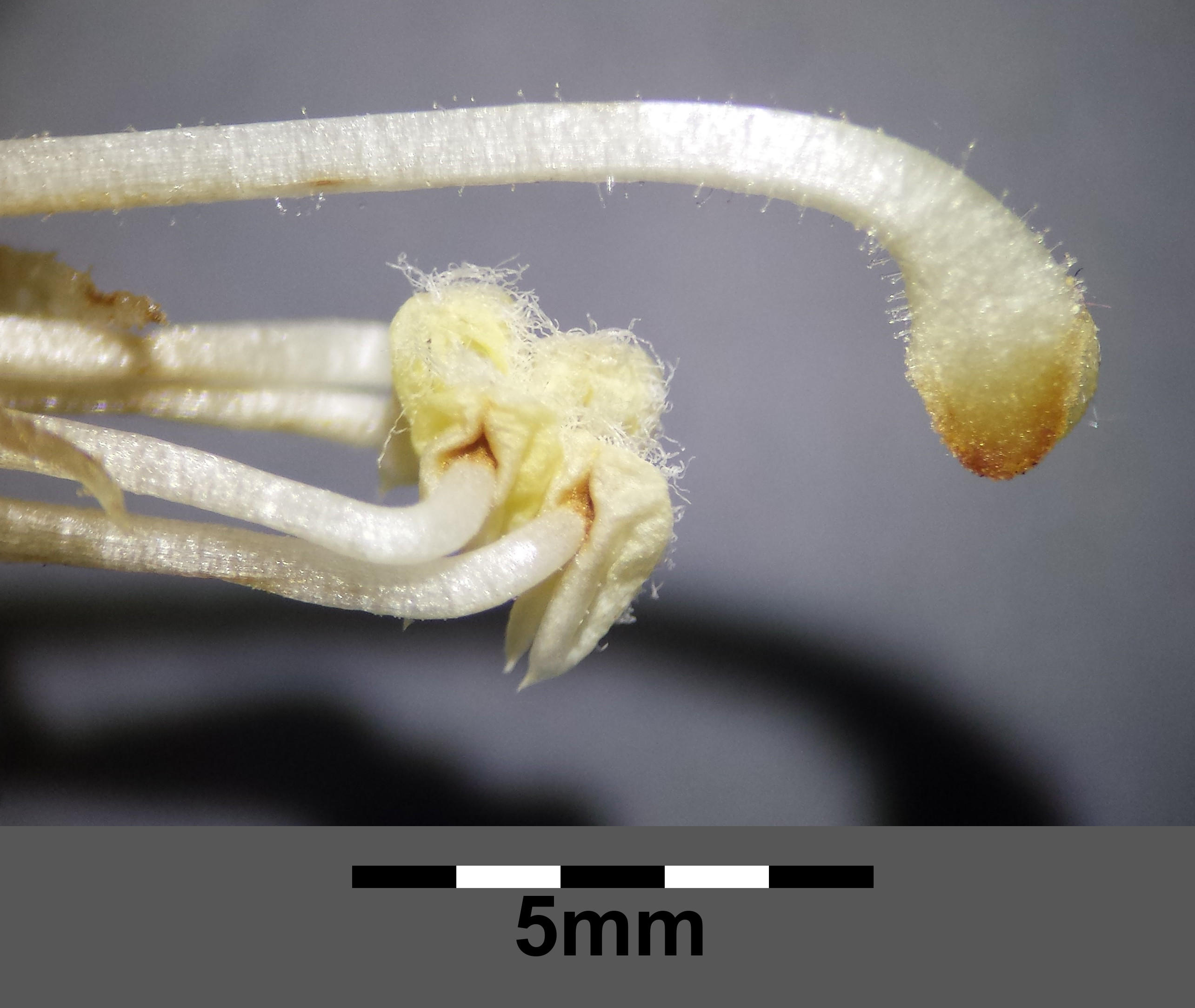 Stylus with stigma and stamina with anthers Taxonym: Phelipanche arenaria ss Fischer et al. EfÖLS 2008 ISBN 978-3-85474-187-9 Location: next to Thürneustift, district Krems-Land, Lower Austria - ca. 375 m a.s.l. Habitat: slope